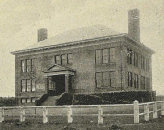 The B.F. Day School — in one of several images brought together as "A few school houses of Seattle", from brochure Seattle and the Orient (1900). This 1892 building was designed by John Parkinson, expanded in 1901, and extensively rehabilitated 1991 — is at 3921 Linden Ave N in Fremont survives as a public school. B.F. Day School home page